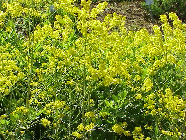 Species: Isatis tinctoria Family: Cruciferae Image No. 3